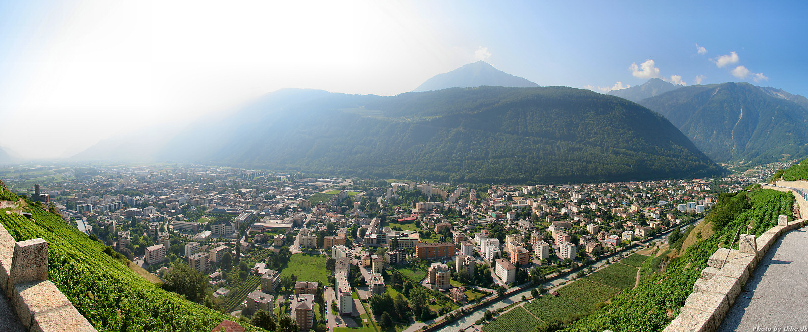 180 degree panorama made from ten 8mpix images Photo by Thomas H